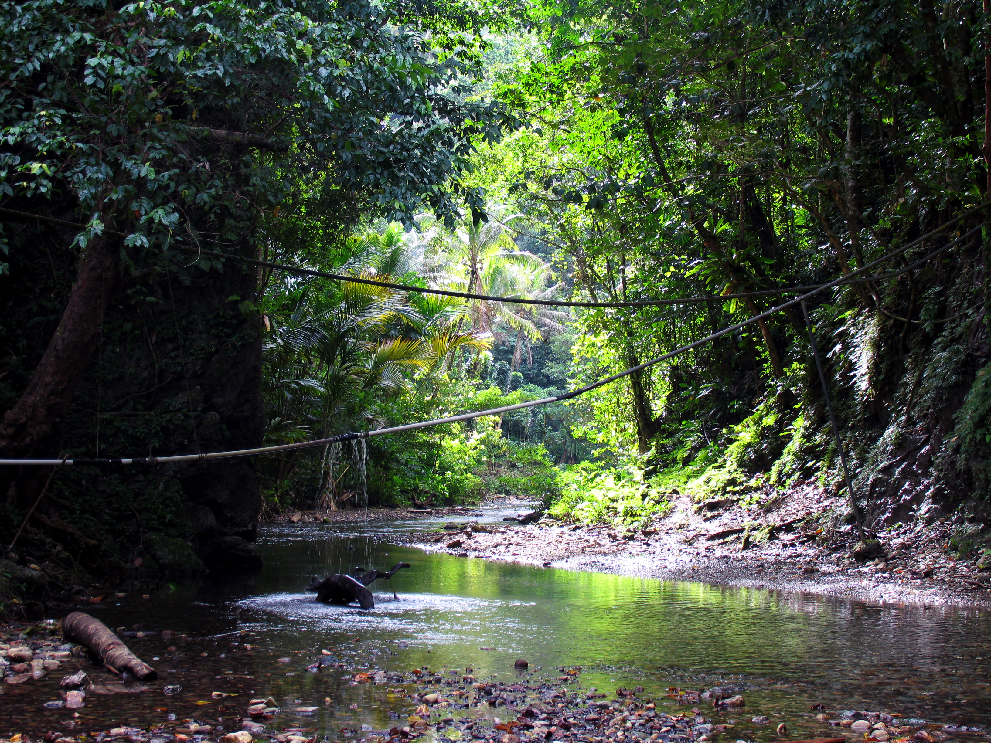 A quiet river scene in Malaita. A water pipe stretches across the river, a local villages water supply. Photo taken by Irene Scott for AusAID. (13/2529)